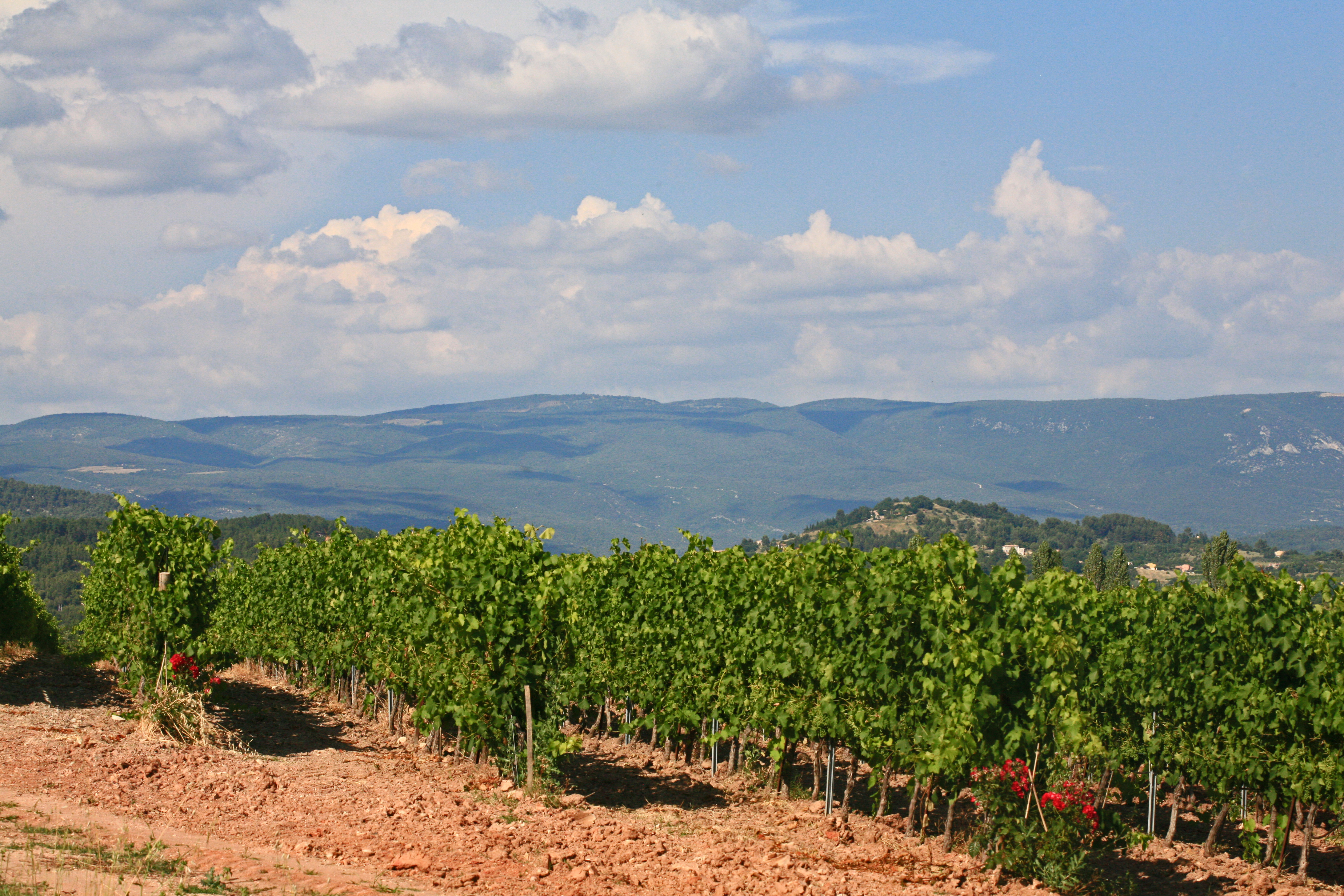 Vignard of the AOV Ventoux with at the back, the "Monts de Vaucluse" and its higest hill, the signal de Saint-Pierre (1 256 m), France.